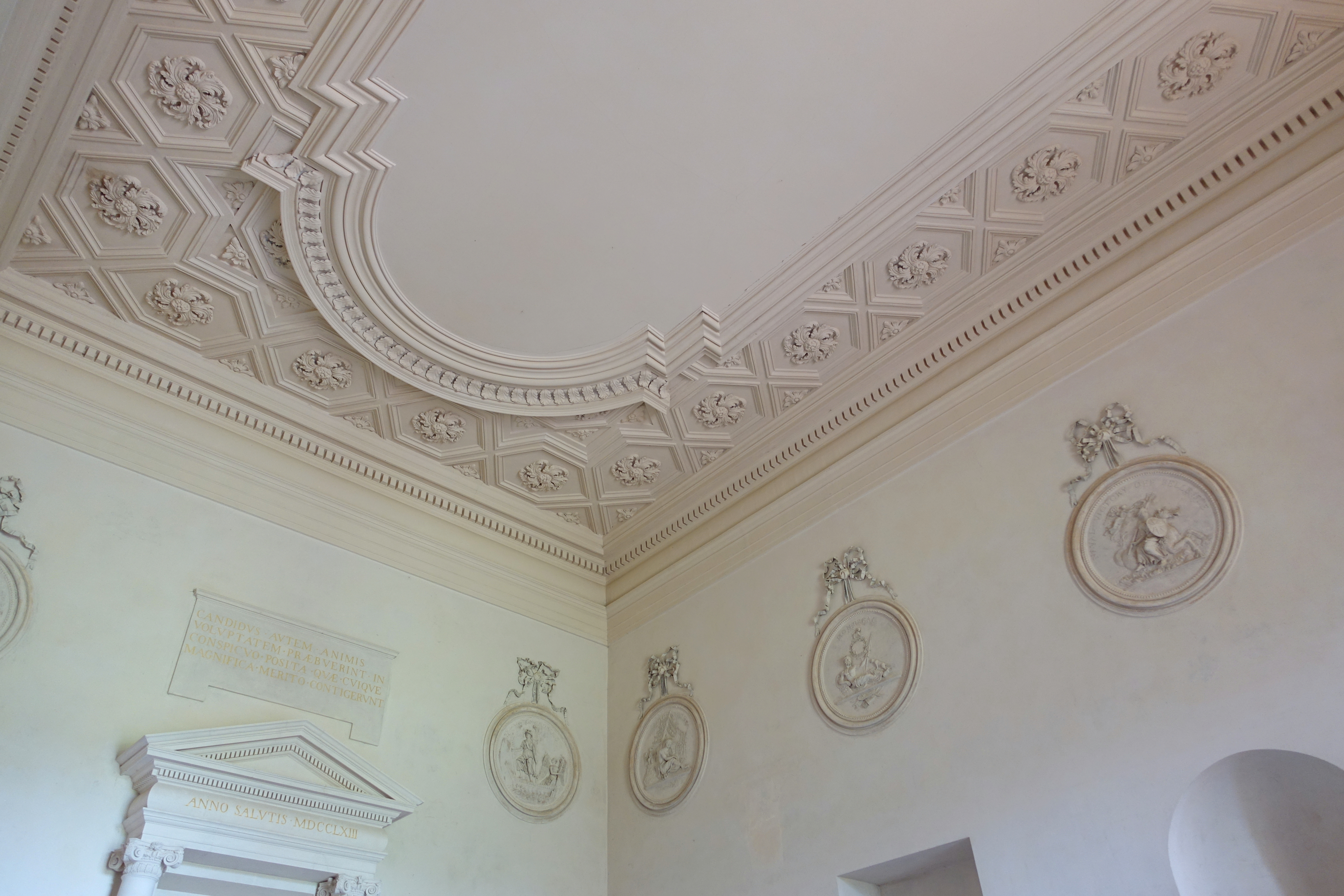 Temple of Concord and Victory, Stowe - Buckinghamshire, England.